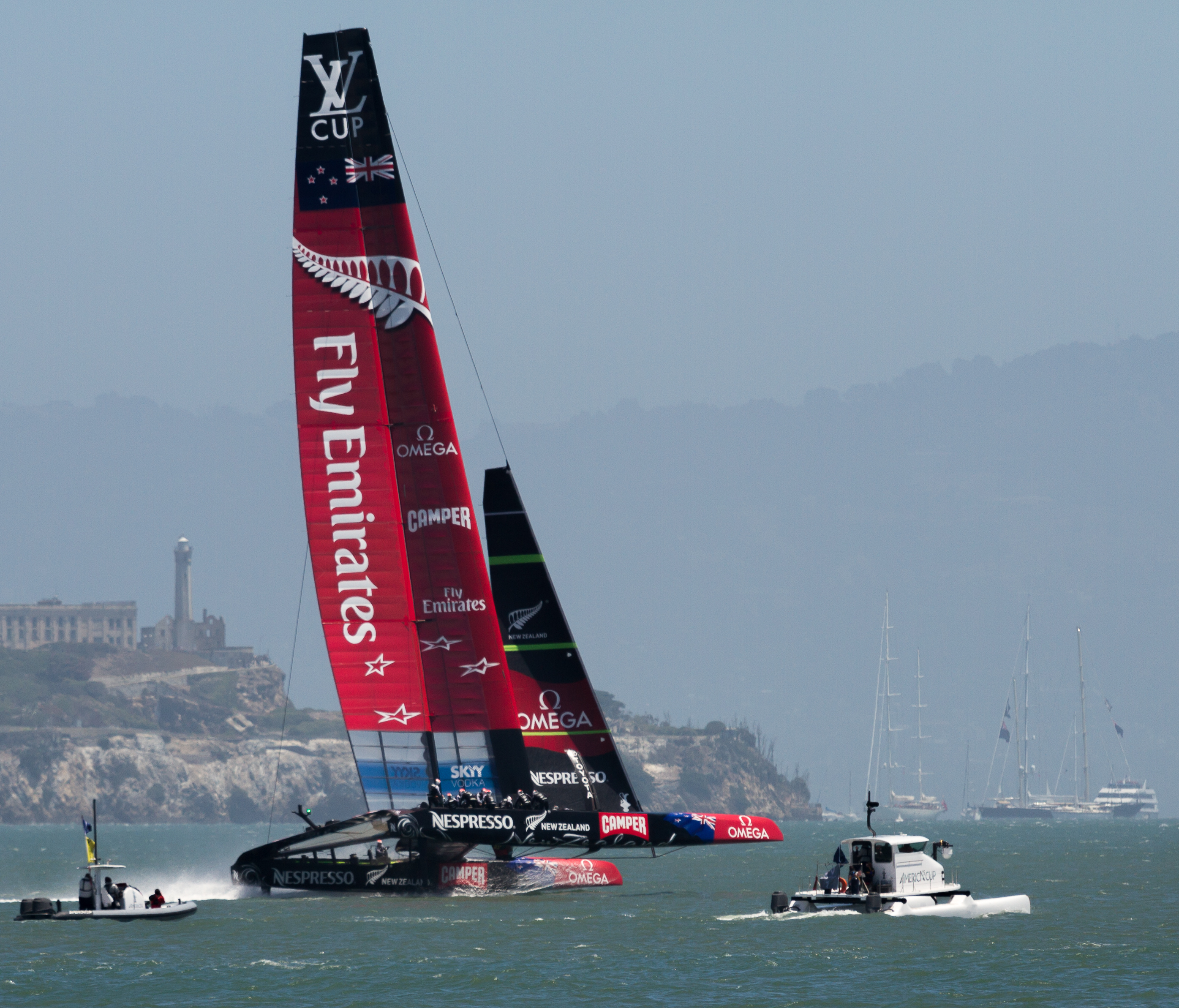 Emirates Team New Zealand at the Louis Vuitton Cup 2013. On July 13, the Emirates Team New Zealand and Luna Rossa contested the first two-boat race of the 2013 Louis Vuitton Cup, and the reigning champions from New Zealand came out on top.